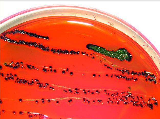 Photograph of E. coli colonies on Levine agar